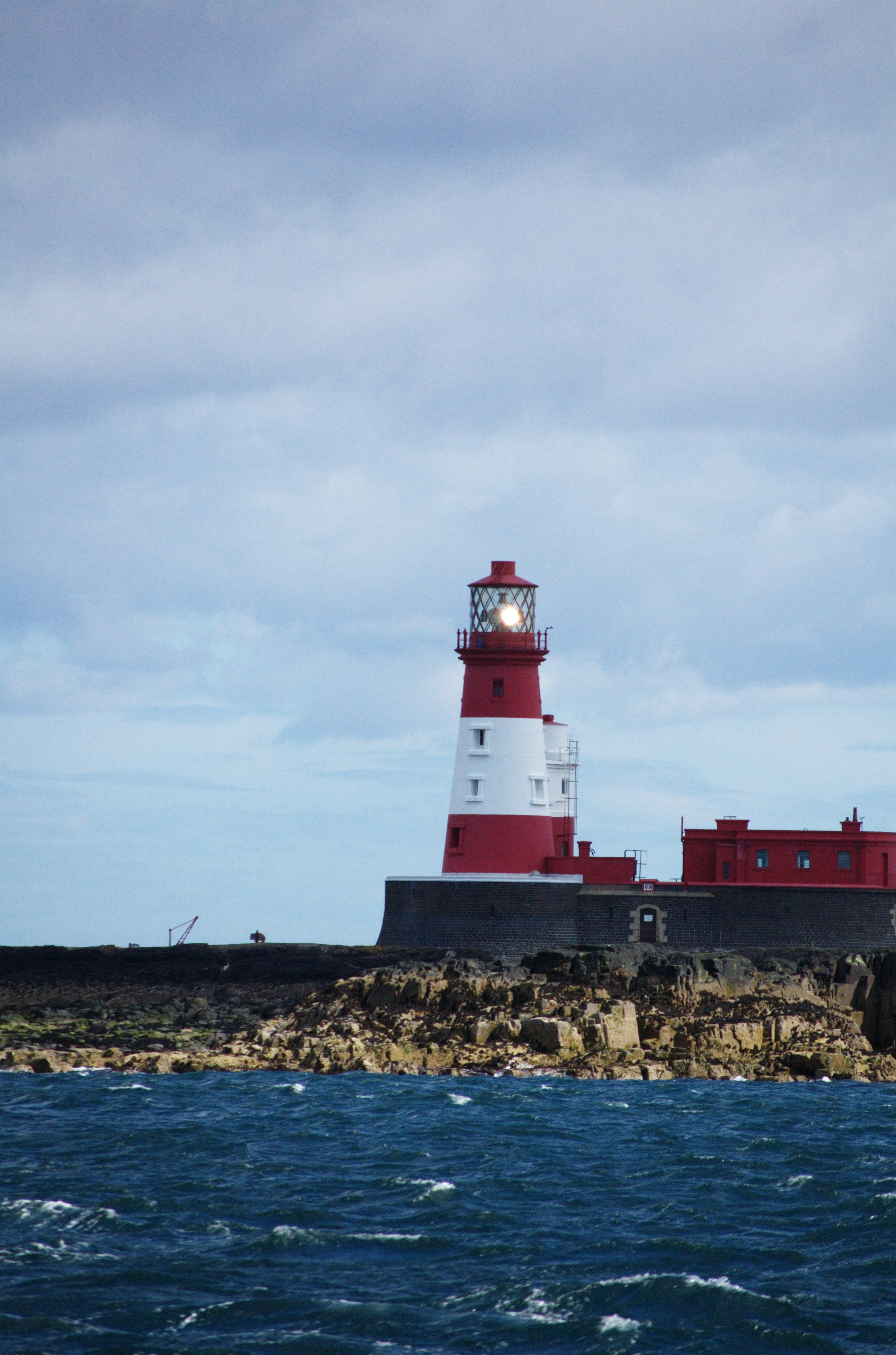 Lighthouse on Farne Islands, Northumberland, England. Photo 2008.